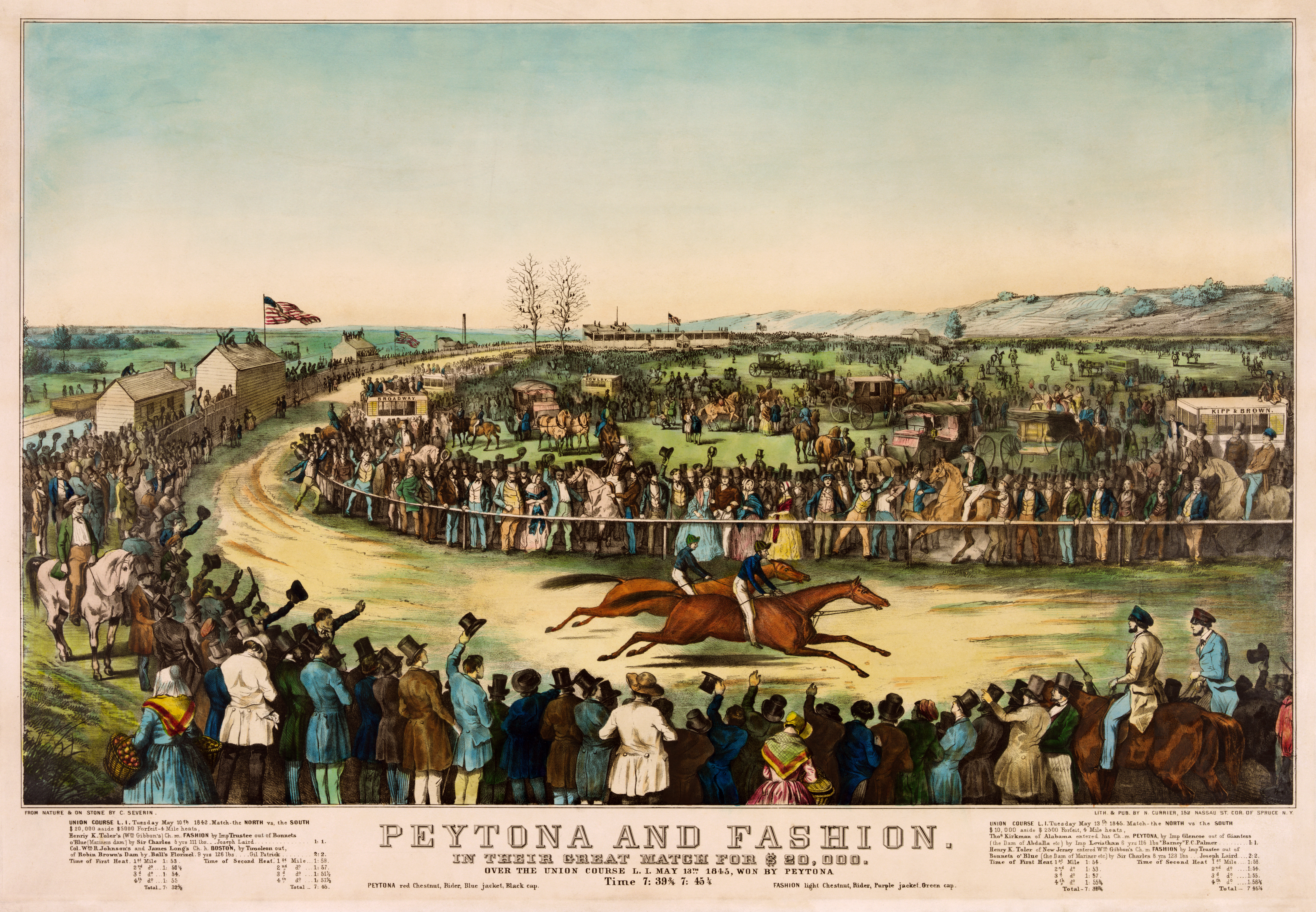 Peytona and Fashion in their great match for $20,000, over the Union Course Long Island, May 13th, 1845, won by Peytona, time 7:39¾ : 7:45¼